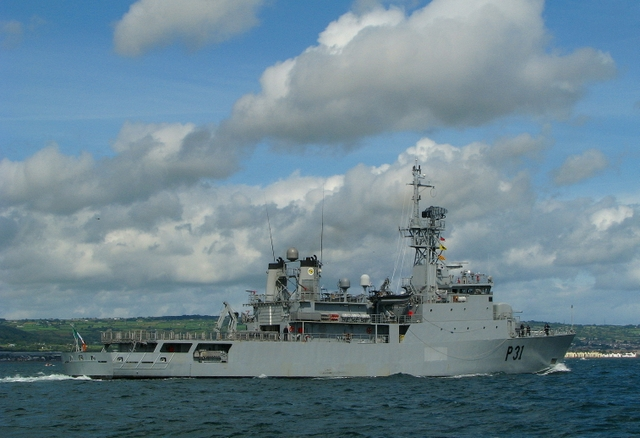 LÉ 'Eithne', Tall Ships Belfast 2009 LÉ 'Eithne' was one of two naval vessels taking part of the 'Parade of Sail' to mark the end of the Tall Ships event in Belfast. After moving out from Belfast Lough the ship anchored just off Grey Point and waited for the parade to pass. LÉ 'Eithne' is an Eithne class ship in the Irish Naval Service. The only ship in the Irish Naval Service fleet to have a flight deck, Eithne was also the last ship to have been built in the Republic of Ireland, constructed at Verholme Dockyard at Rushbrook, Cork and completed in 1984.